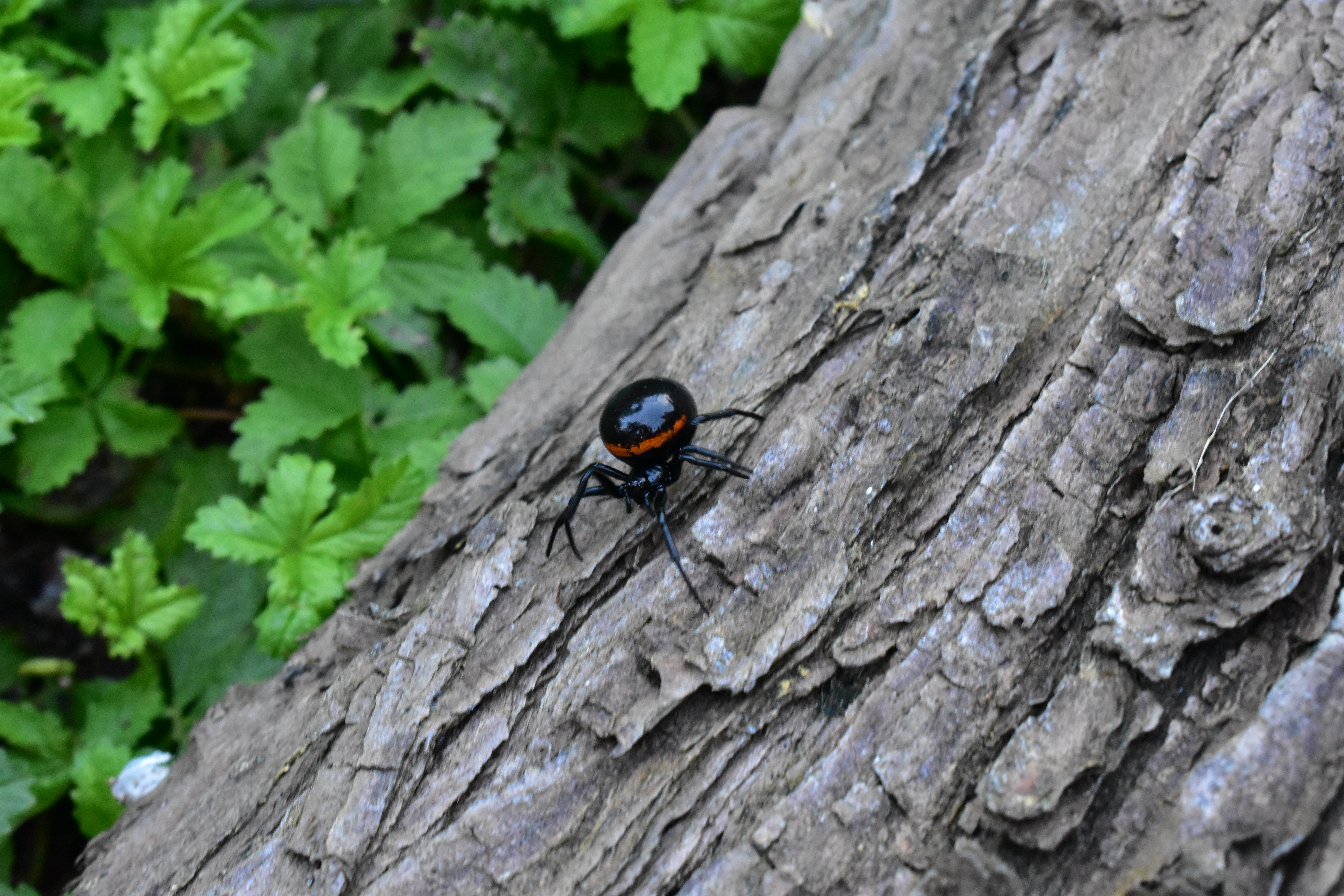 Steatoda paykulliana: False Black Widow spider viewed in rural garden in Northern Greece; May 5th, 2018